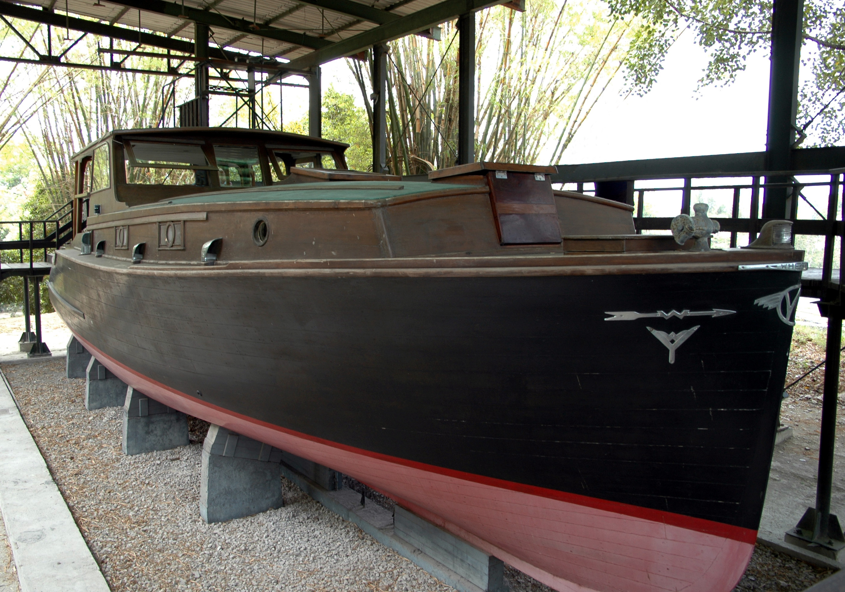 Cuba, San Francisco de Paula, Finca la Vigia, Hemingway's house, fishing boat 'El Pilar'